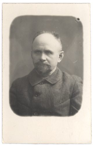 Alexandr I. Juschtschenko (1869-1936), Ukrainian psychiatrist